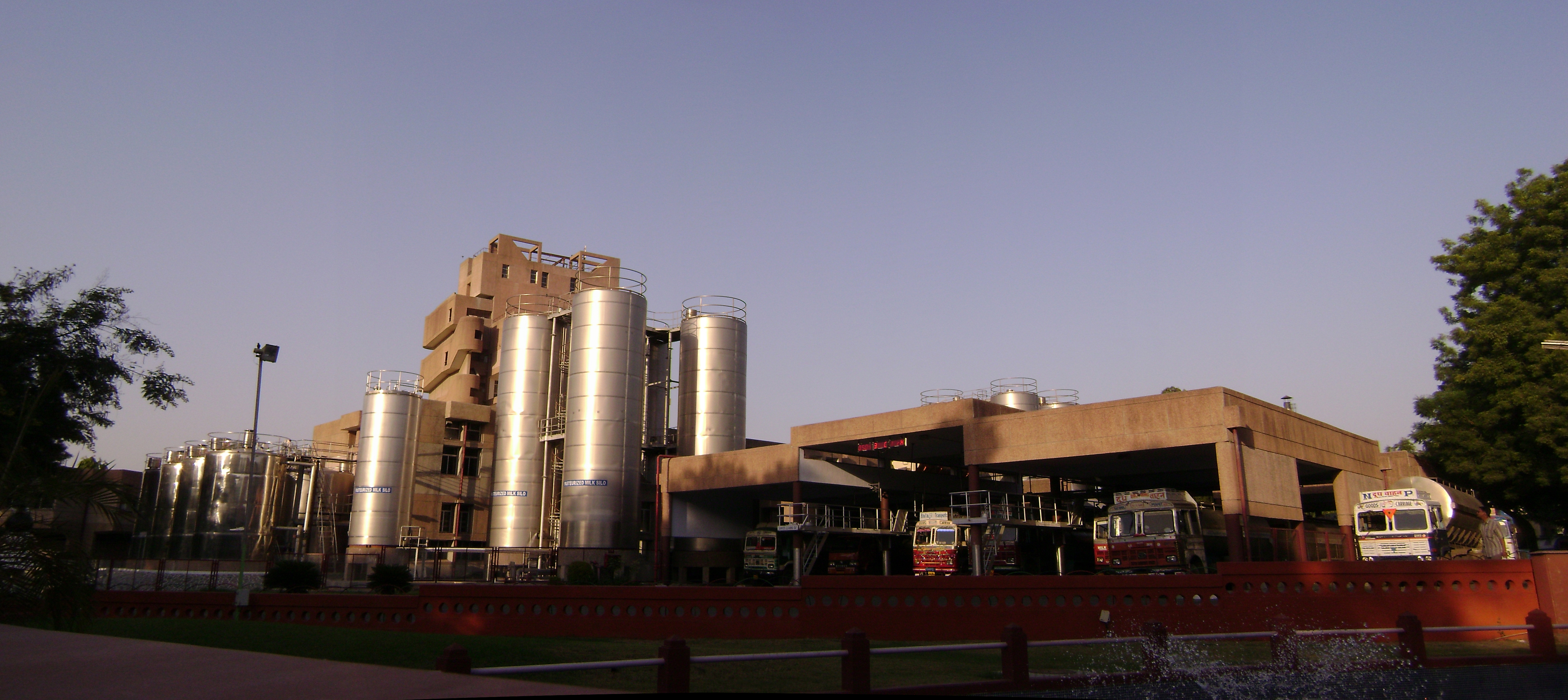 Amul Plant at Anand featuring the High capacity Milk Silos